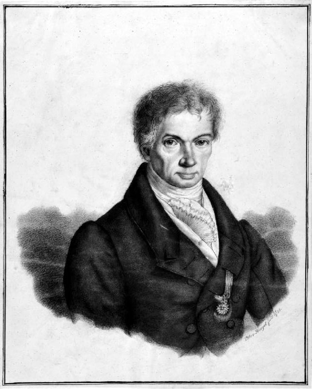 Heinrich Gallus von Rinecker (1773-1852), Regierungsdirektor des Unterdonaukreises, Ministerialrat im Bayerischen Innenministerium, Landtagsabgeordneter, von Otto von Stengel 1843, nach Vorlage von Franz Hanfstaengl, 1829